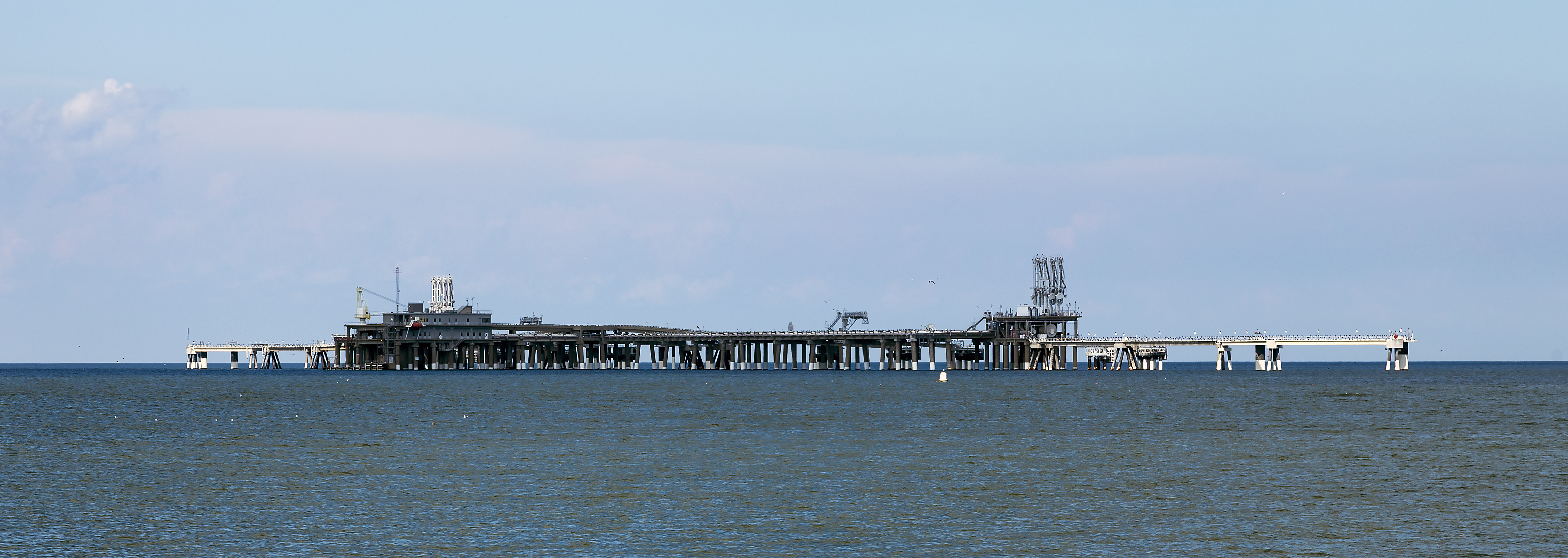 The liquefied natural gas loading pier at the Dominion Cove Point LNG facility, Maryland, USA